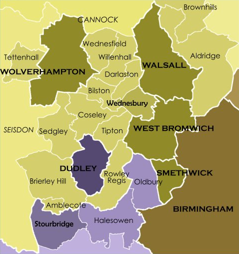 The local government structure within the Black Country prior to the West Midlands Order 1965 reorganisation. F. Youngs, Local Administrative Units: Northern England (London: Royal Historical Society, 1991), p. 760.